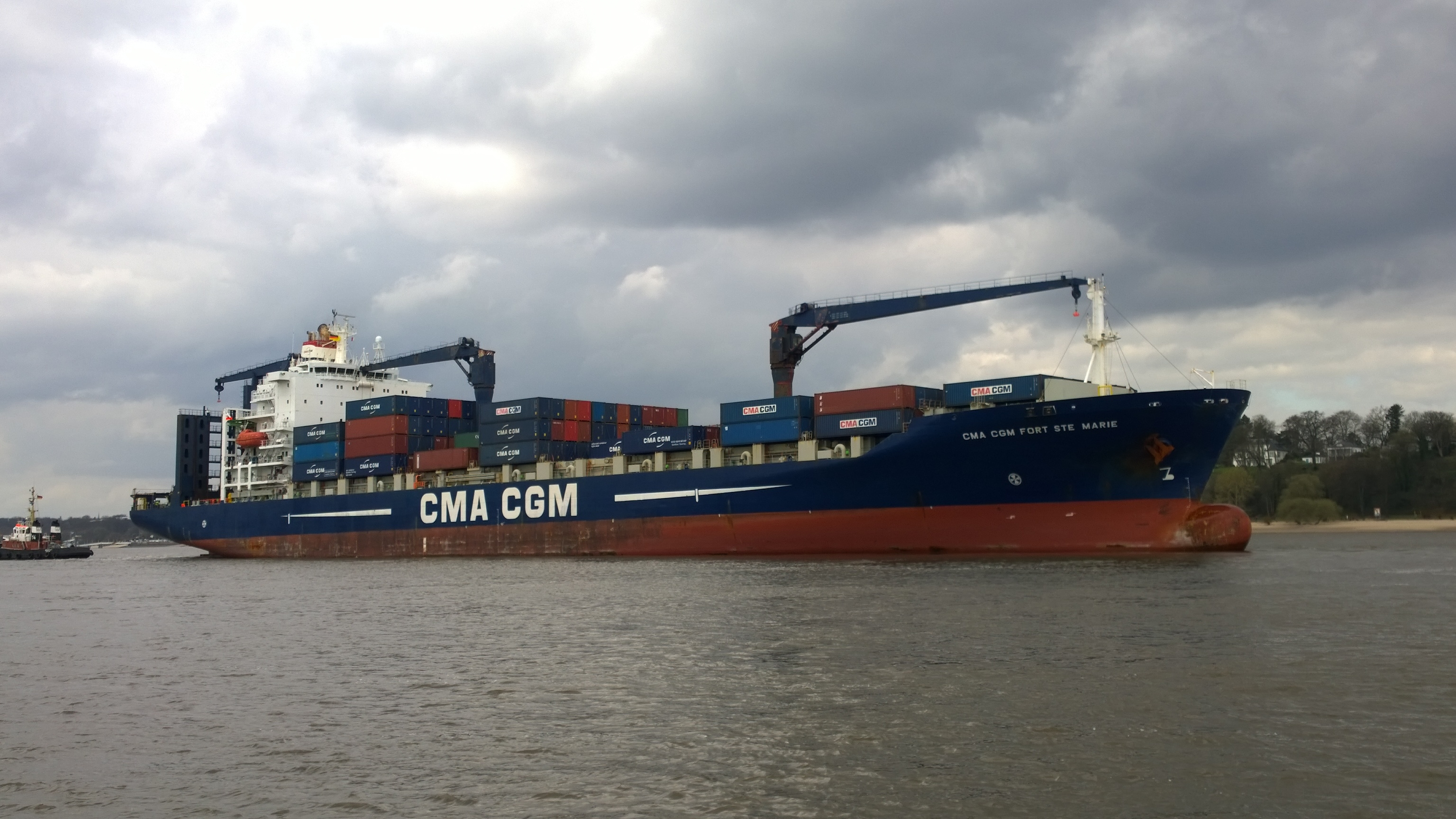 Container ship CMA CGM Fort Ste Marie on the river Elbe with the port of destination Hamburg